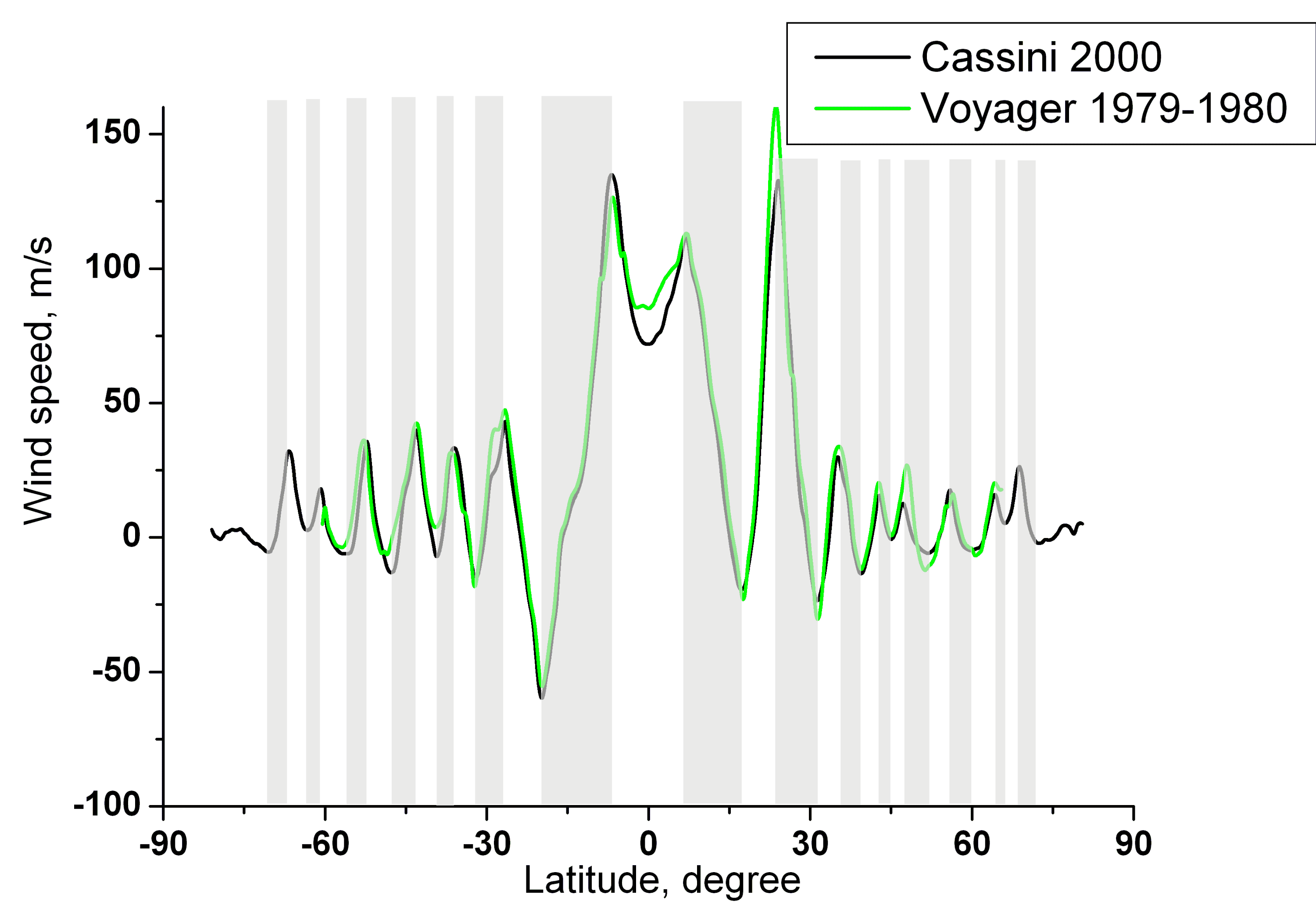 Zonal wind speeds in the atmosphere of Jupiter. The results of the Voyager and Cassini missions are shown. The shaded areas correspond to the locations of belts. Source: Vasavada, Ashvin R.; Showman, Adam (2005). "Jovian atmospheric dynamics: an update after Galileo and Cassini". Reports on Progress in Physics 68: 1935–1996.